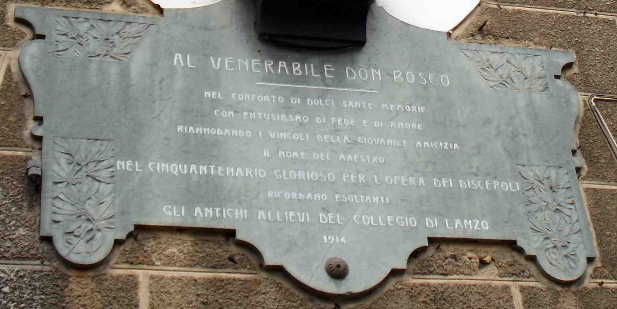 Lanzo Torinese (TO, Italy): memorial plaque devoted to saint Giovanni Bosco